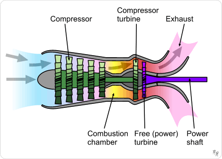 Schematic diagram showing the operation of a generalised turboshaft engine